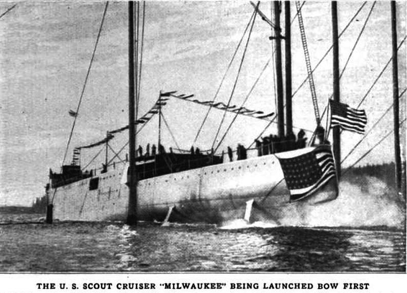 Launching of the U.S. Navy light cruiser USS Milwaukee (CL-5) at the Todd Dry Dock & Construction Co. at Tacoma, Washington (USA), on 24 March 1921.